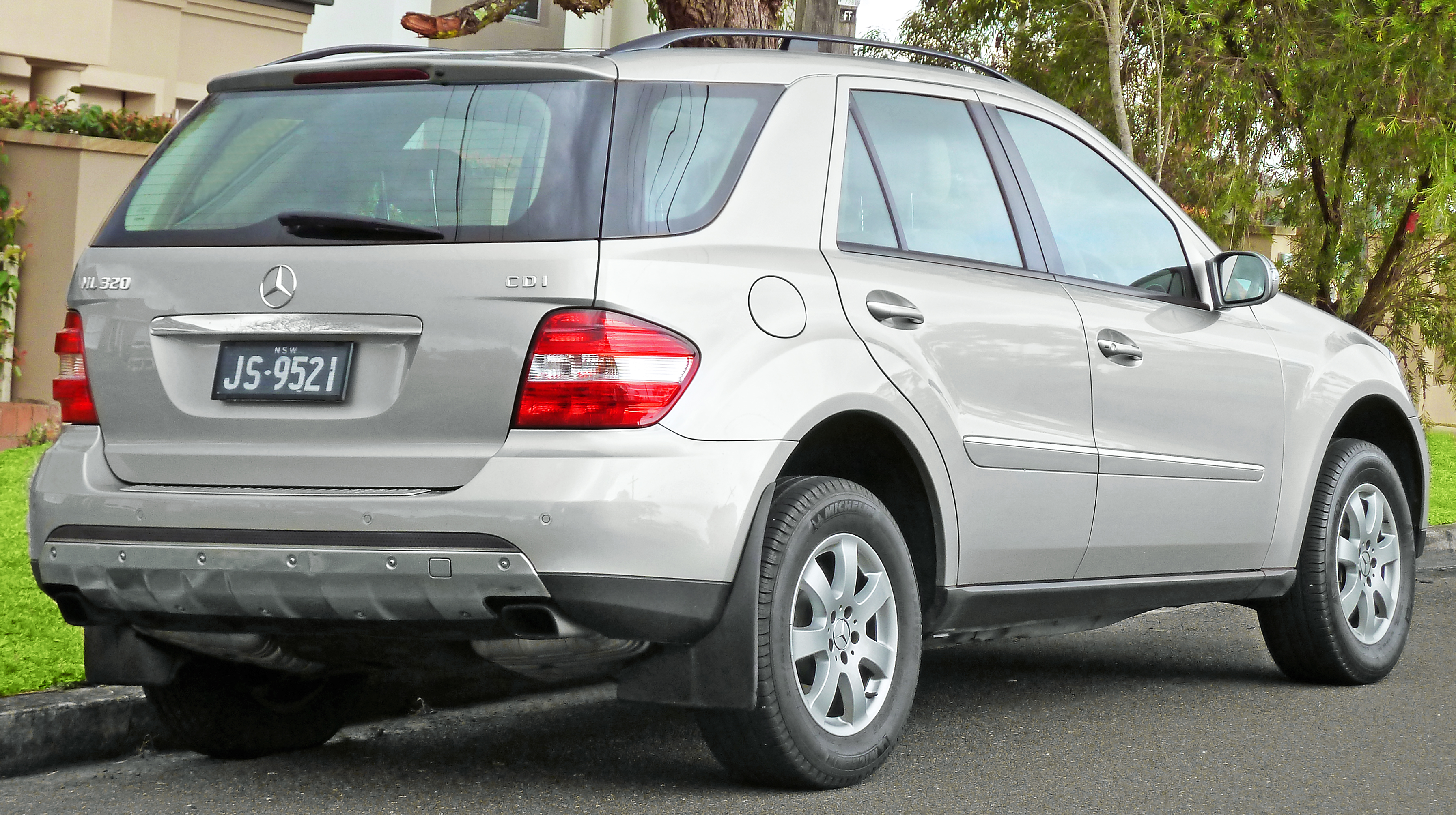 2006 Mercedes-Benz ML 320 CDI (W 164) wagon. Photographed in Castle Cove, New South Wales, Australia.